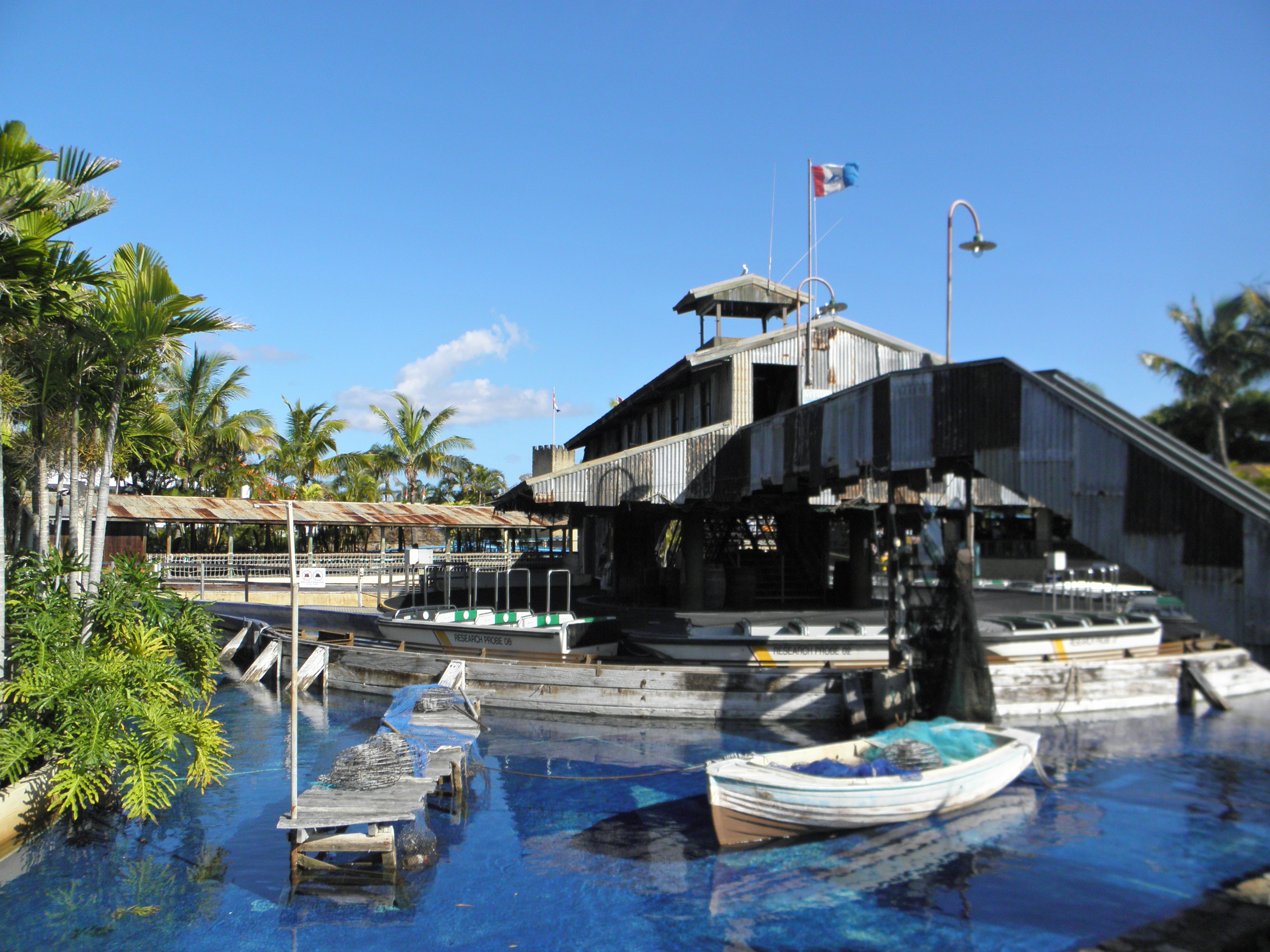 The station of the Bermuda Triangle water ride at Sea World on the Gold Coast, Australia.